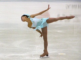 Yukina Ota at the 2003 NHK Trophy.